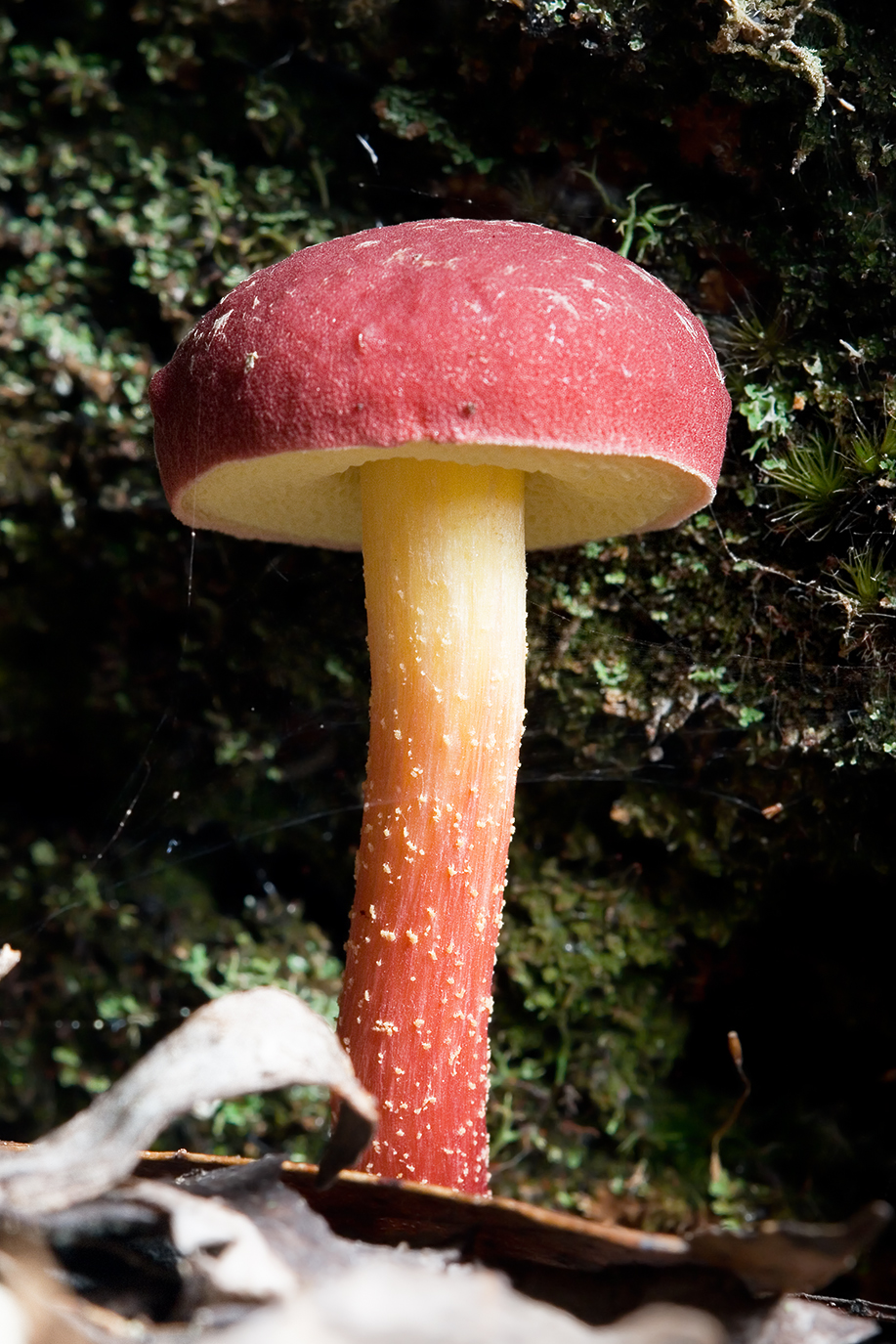 Boletellus obscureococcineus Camera data Camera Canon EOS 400D Lens Tamron EF 180mm f3.5 1:1 Macro Flash Umbrella Right Focal length 180 mm Aperture f/10 Exposure time 1/200 s Sensivity ISO 400